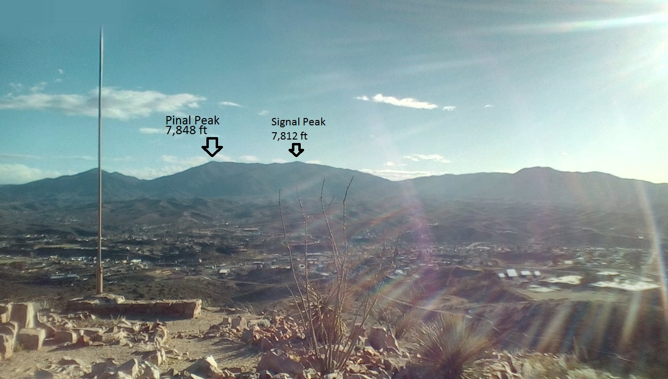 Locations and elevations of Pinal and Signal peaks in the Pinal Mountains south of Globe, AZ.